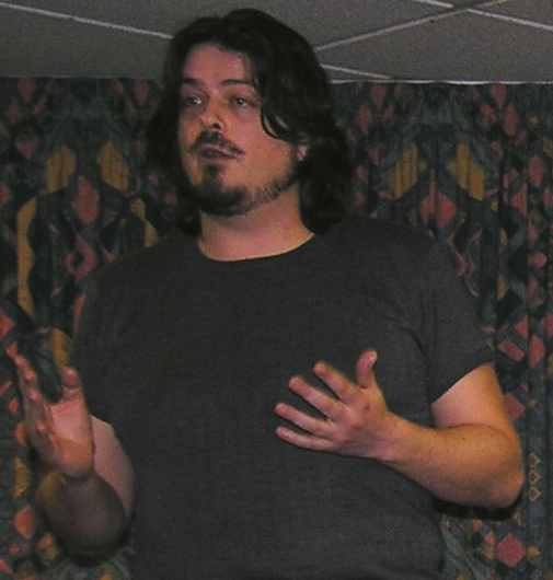 David Shayler, former member of the British Security Service MI5, at an public anti-war meeting at Sheffield University organised by Sheffield University Stop the War Coalition in March 2004.